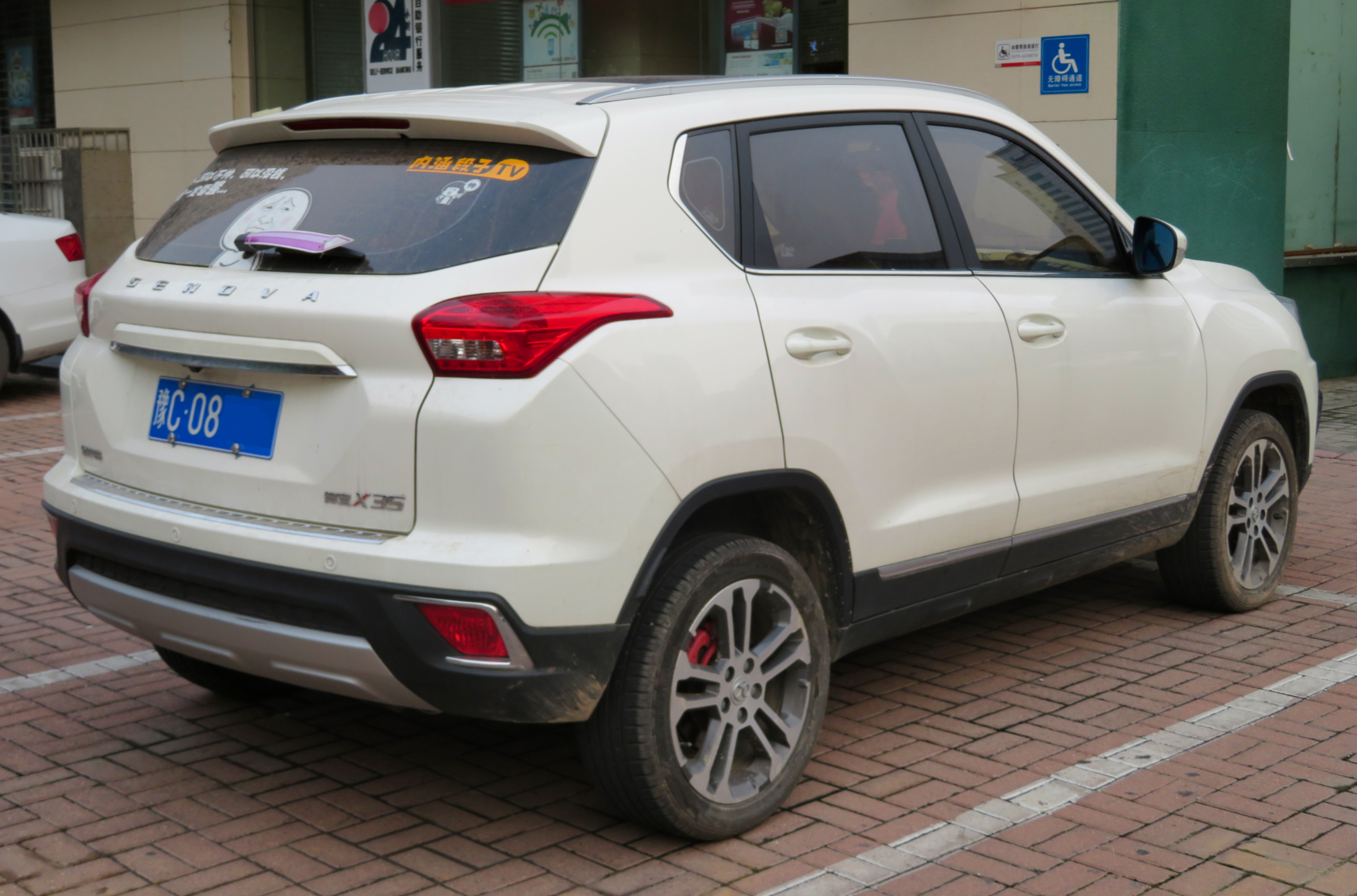 A 2016 BAIC Senova X35 photographed in Luoyang, Henan province, China